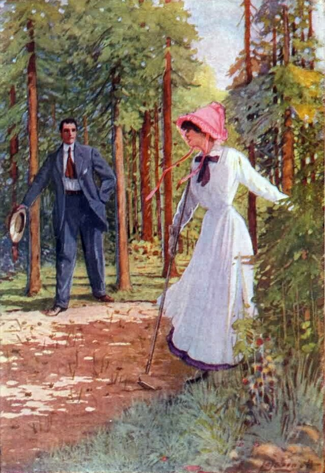 Cover of book "The Rules of the Game" by Stewart Edward White (1873-1946), illustrated by Lejaren Hiller, Sr. (1880-1969)